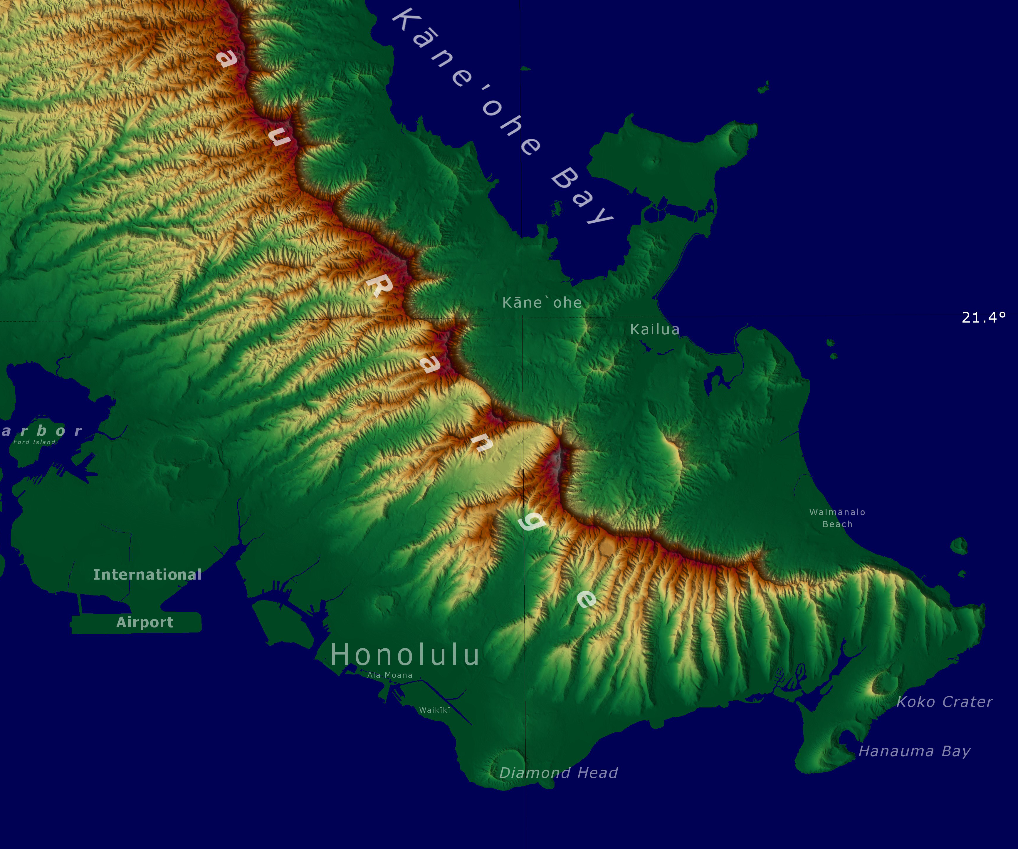 Map created with 3DEM from National Elevation Dataset ( Administrative boundaries from OpenStreetMap.